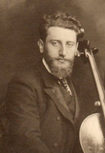 Johannes Hegar, Swiss cellist